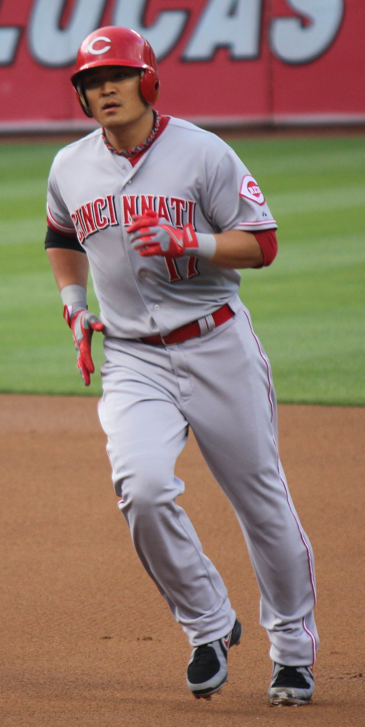 Photo of Shin-Soo Choo, 2013-06-25, Oakland CA